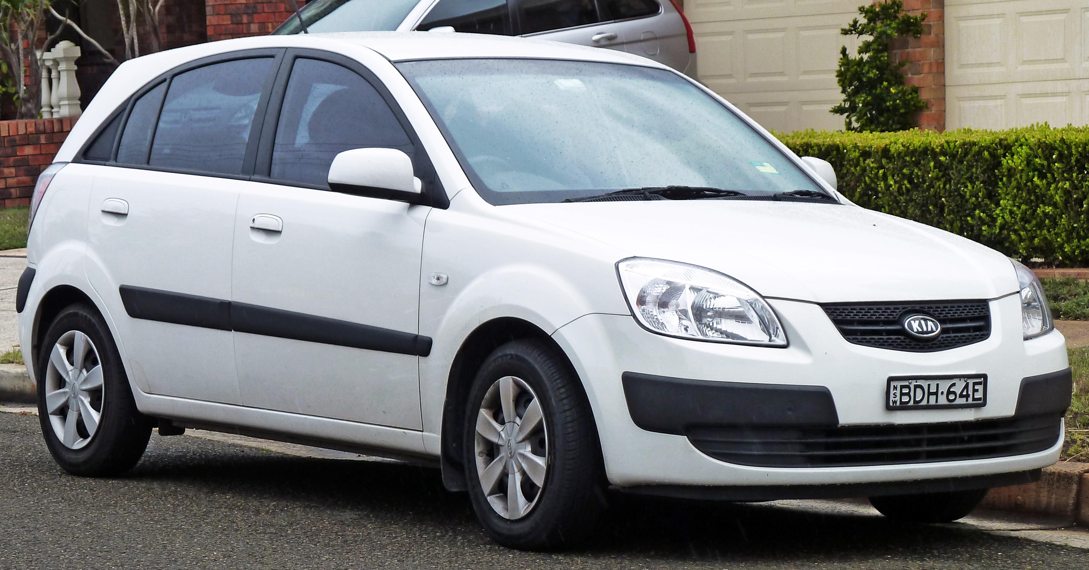 2005–2009 Kia Rio (JB) hatchback. Photographed in Dolls Point, New South Wales, Australia.